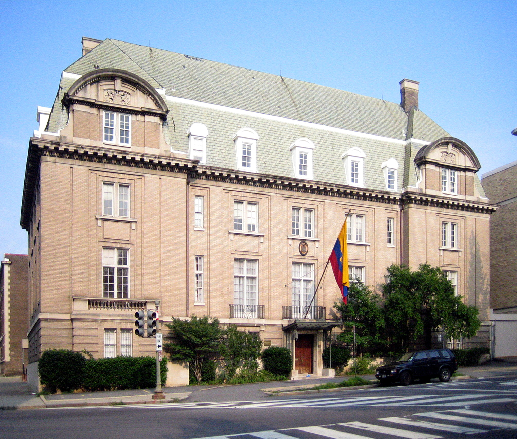 Ecuadorean Embassy in Washington, D.C. located on 15th St NW